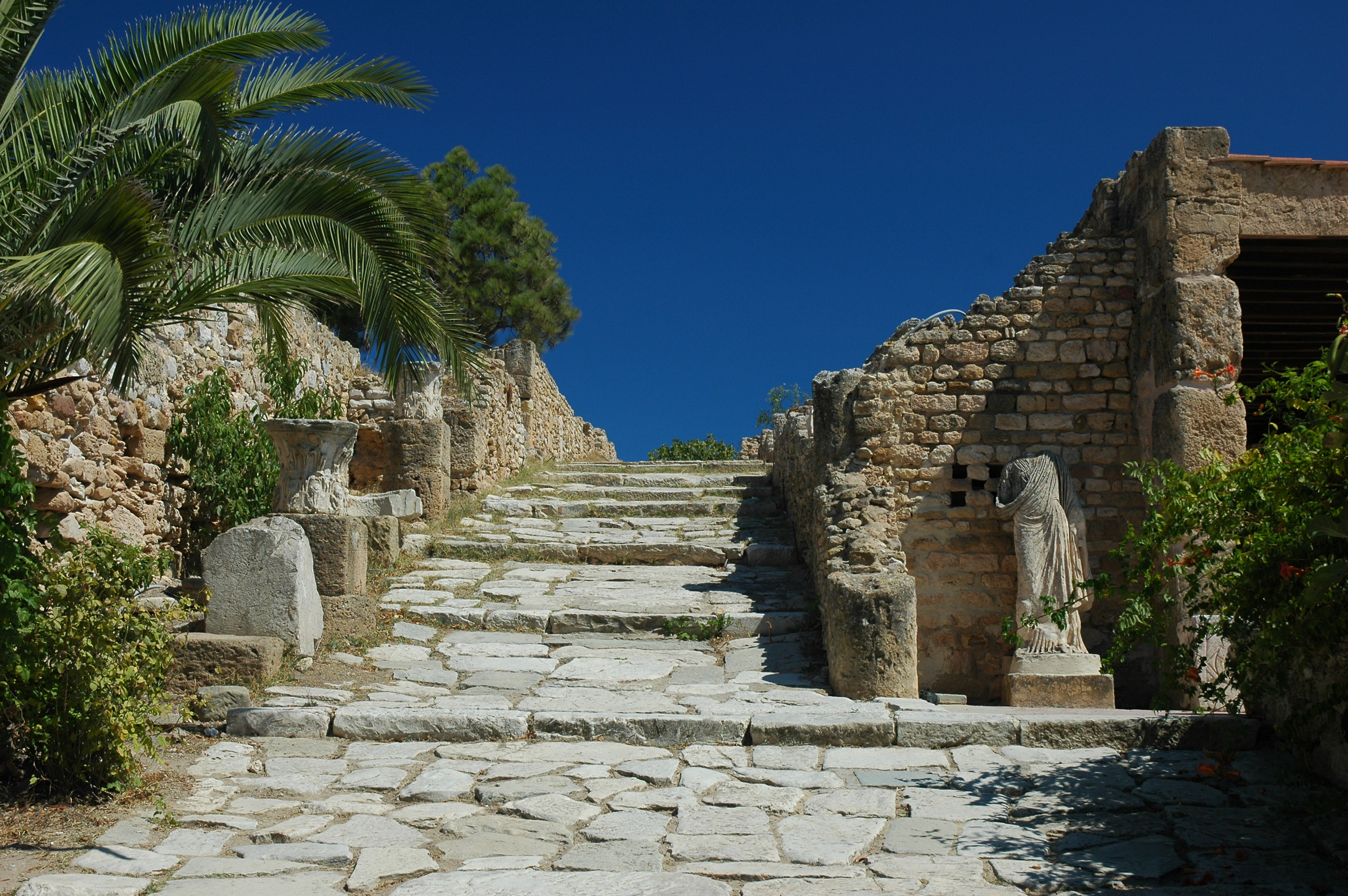 Tunisie Carthage Photographie prise par Patrick GIRAUD